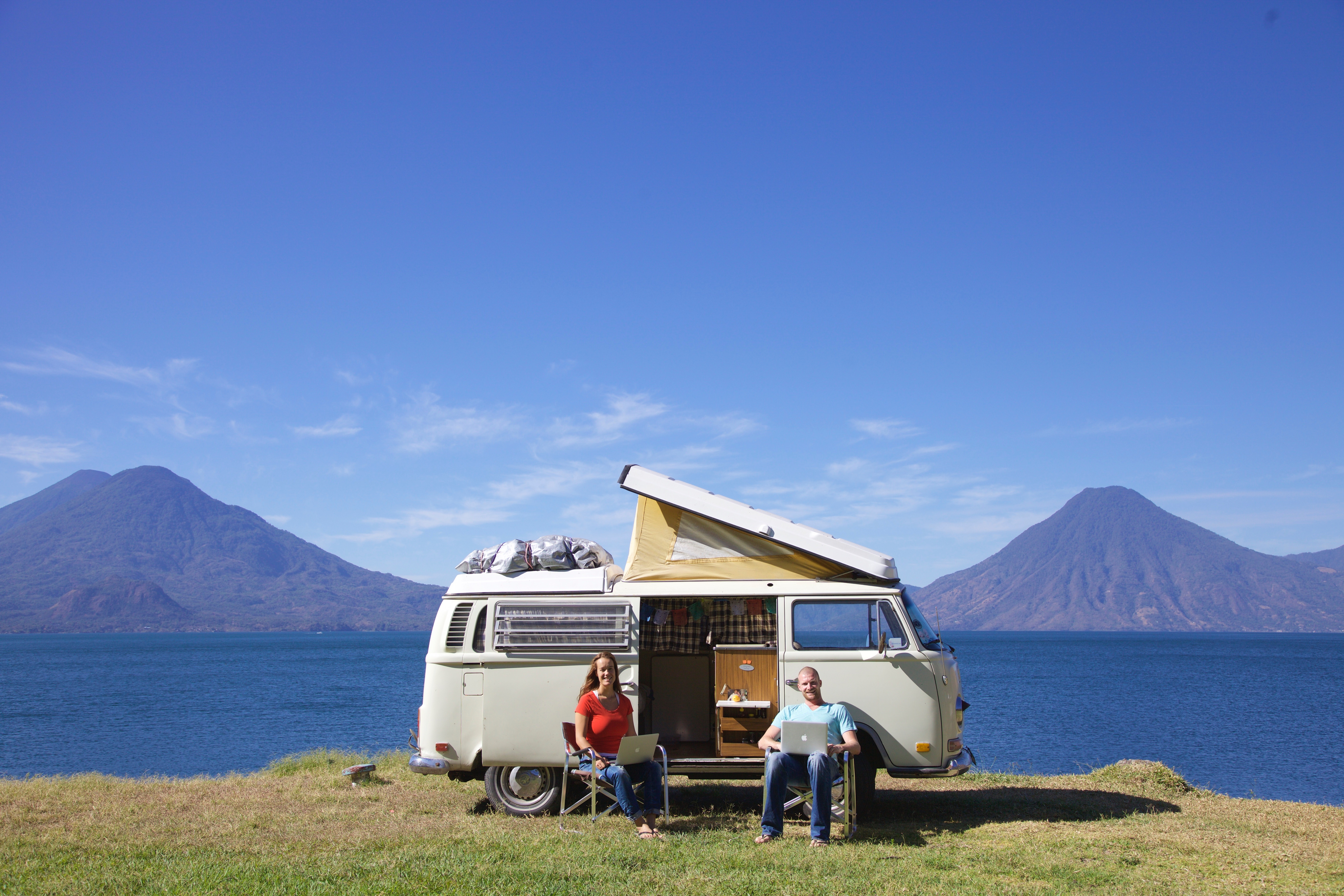 Roadtrip Guatemala and Belize (Feb 2015)